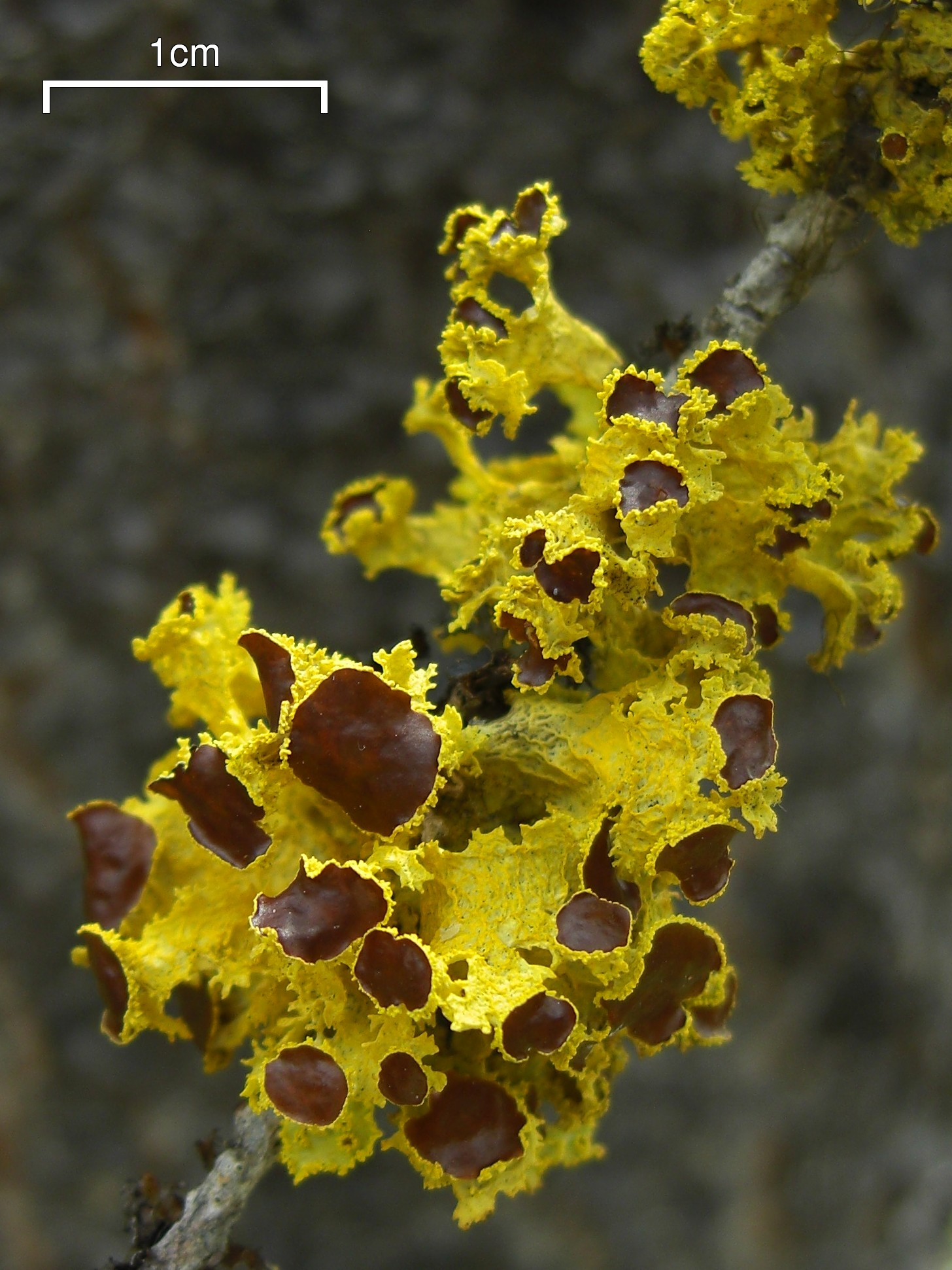 The lichen Vulpicida canadensis. Photographed in Edgewood Blue, Thompson Region, Wells Gray Provincial Park, British Columbia, Canada.